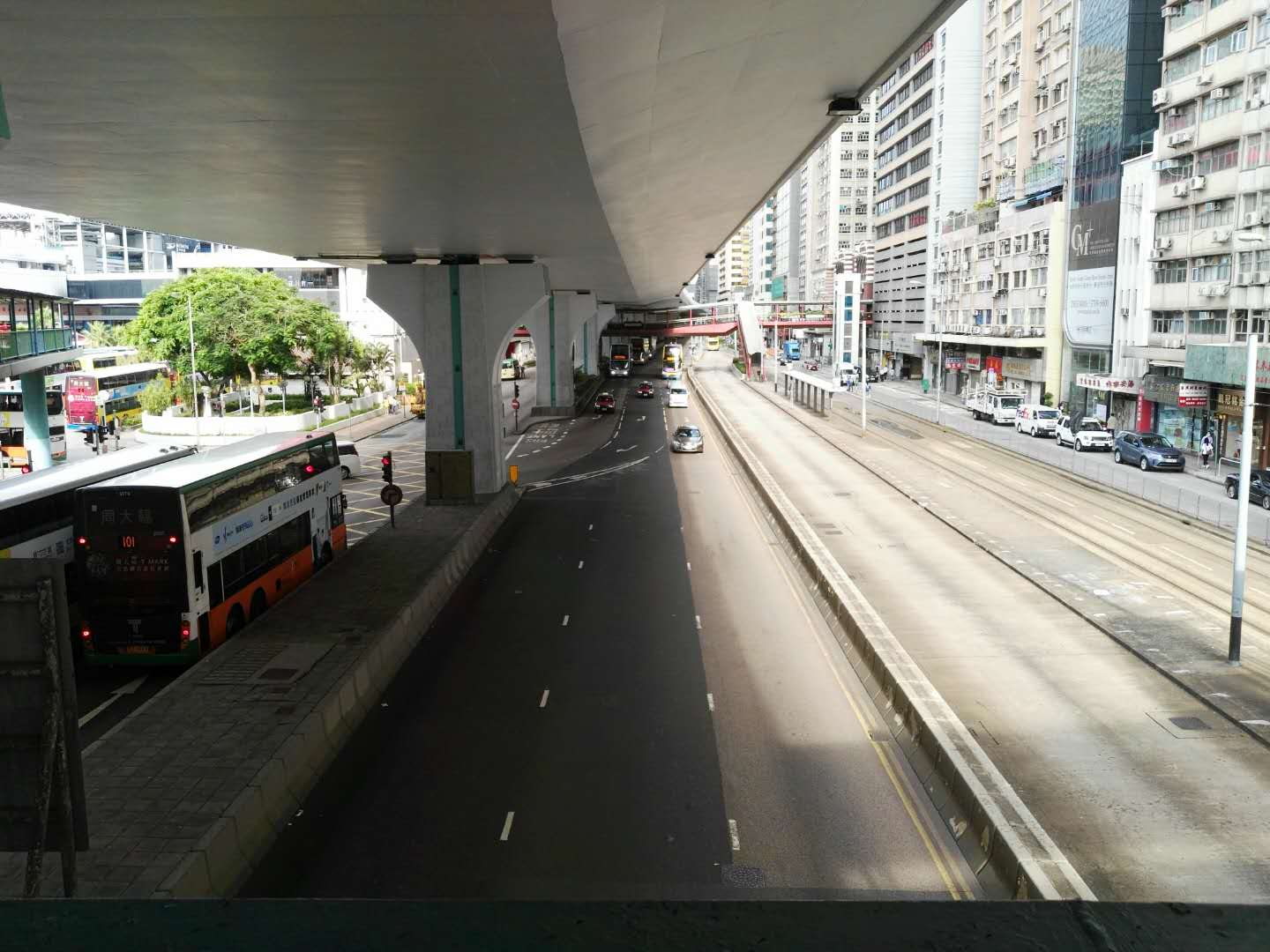 Connaught Road West Bridge underside